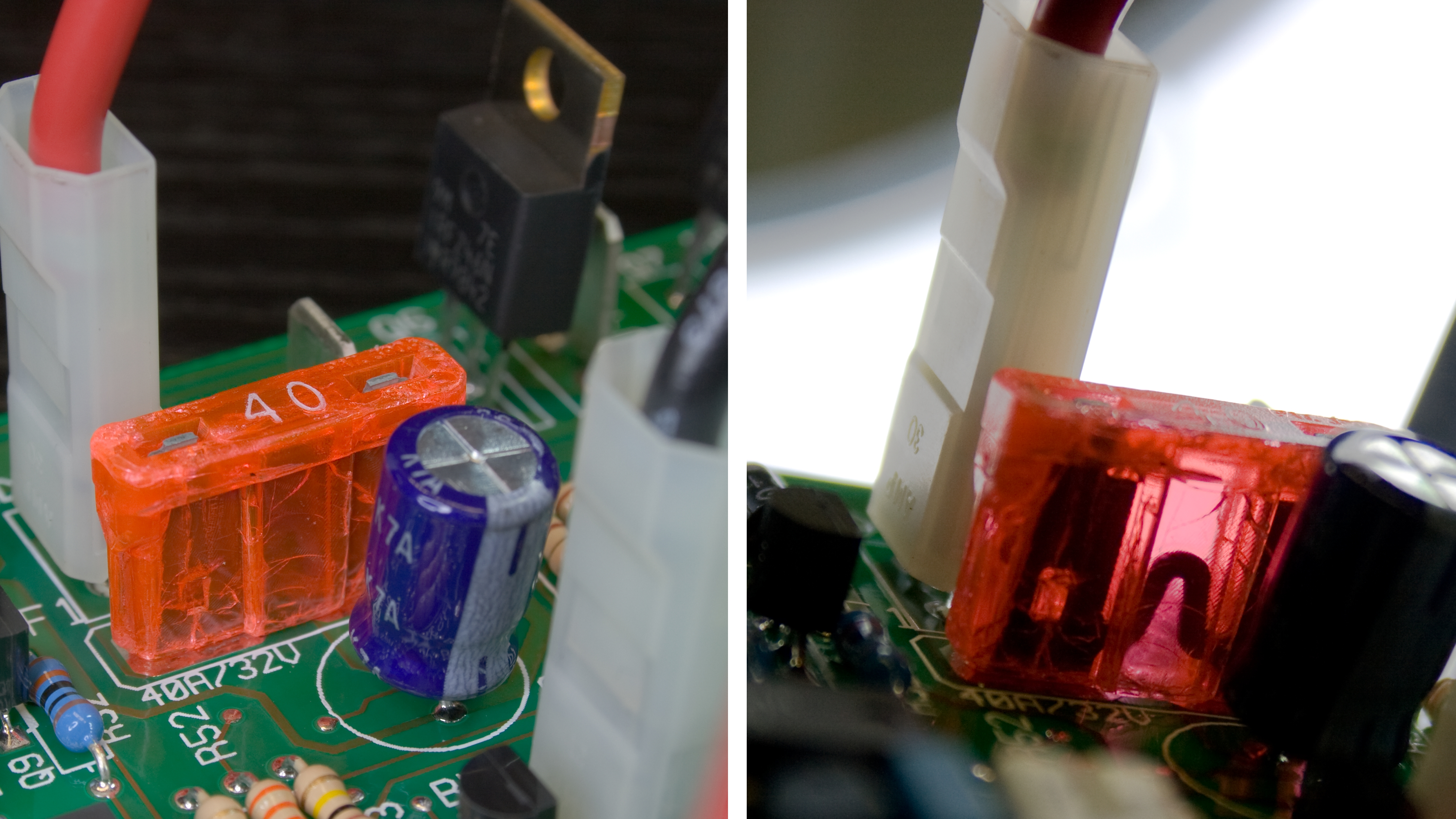 uninterruptible power supply